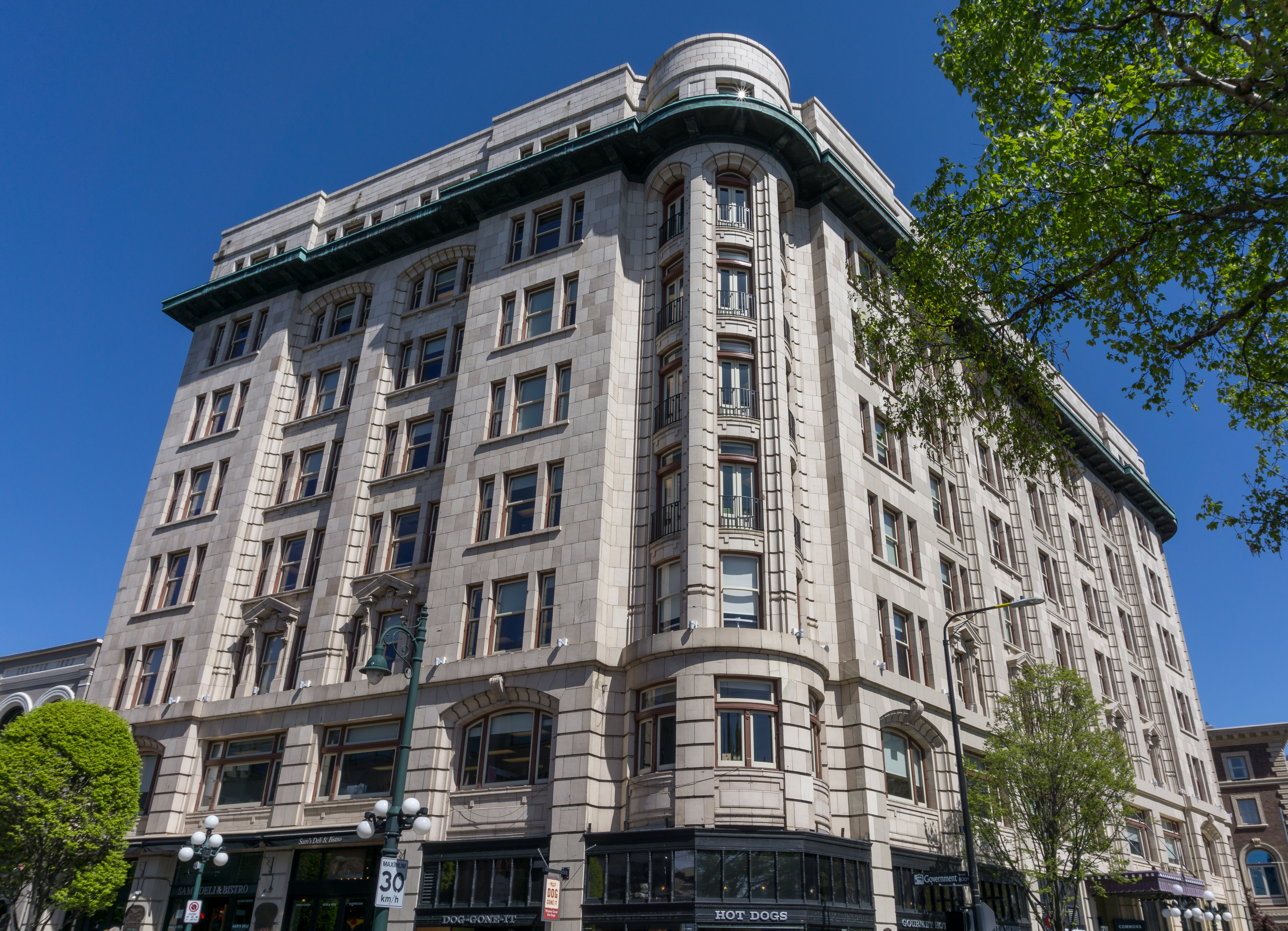 Belmont Building, Victoria, British Columbia, Canada